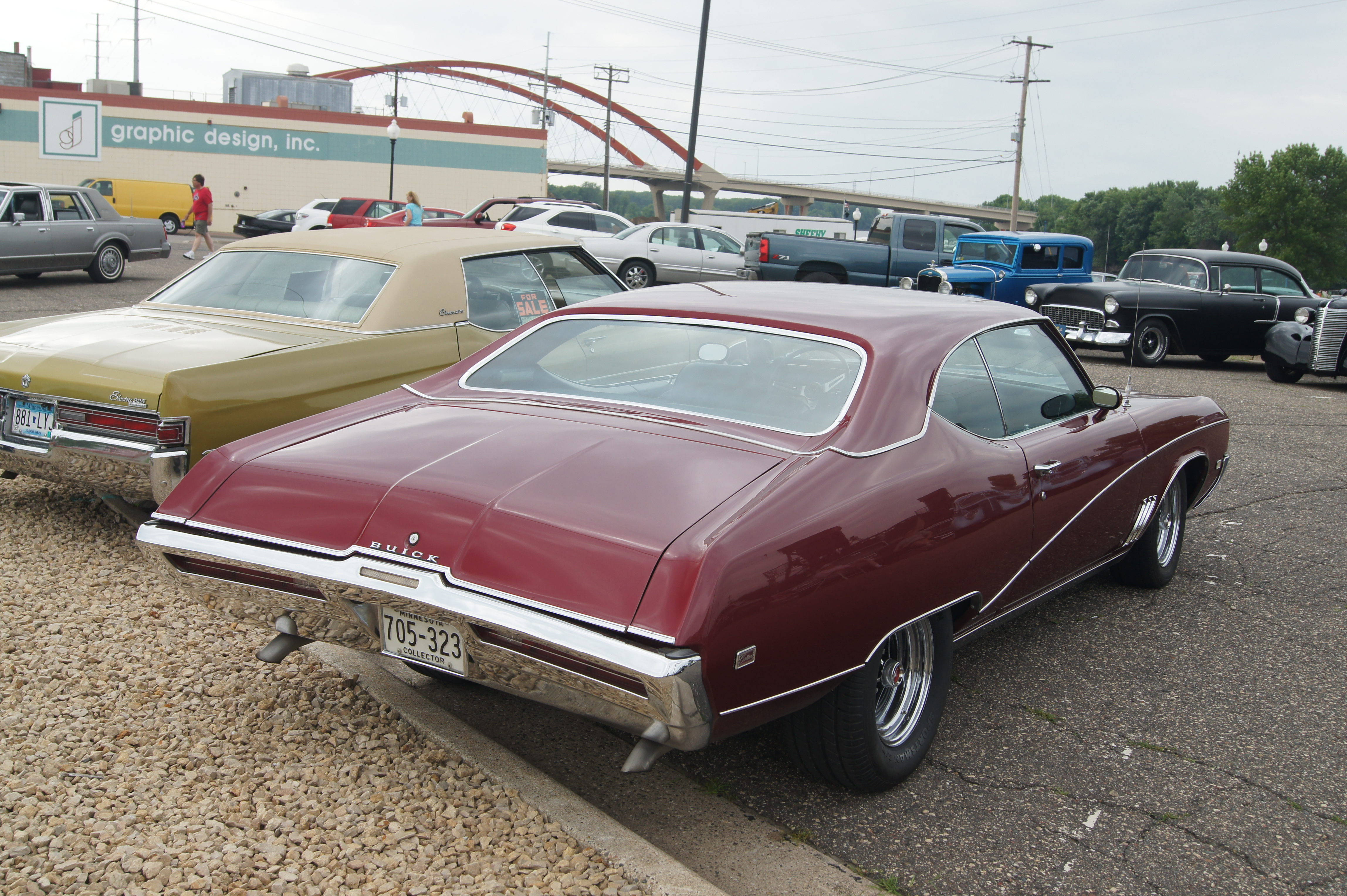 HISTORIC DOWNTOWN HASTINGS CRUISE-IN & CLASSIC CAR SHOW July 11, 2015 Click here for more car pictures at my Flickr site.